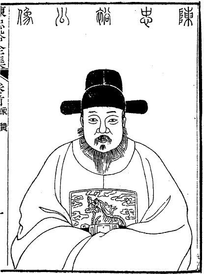 Chen Zilong, poet of the late Ming Dynasty.